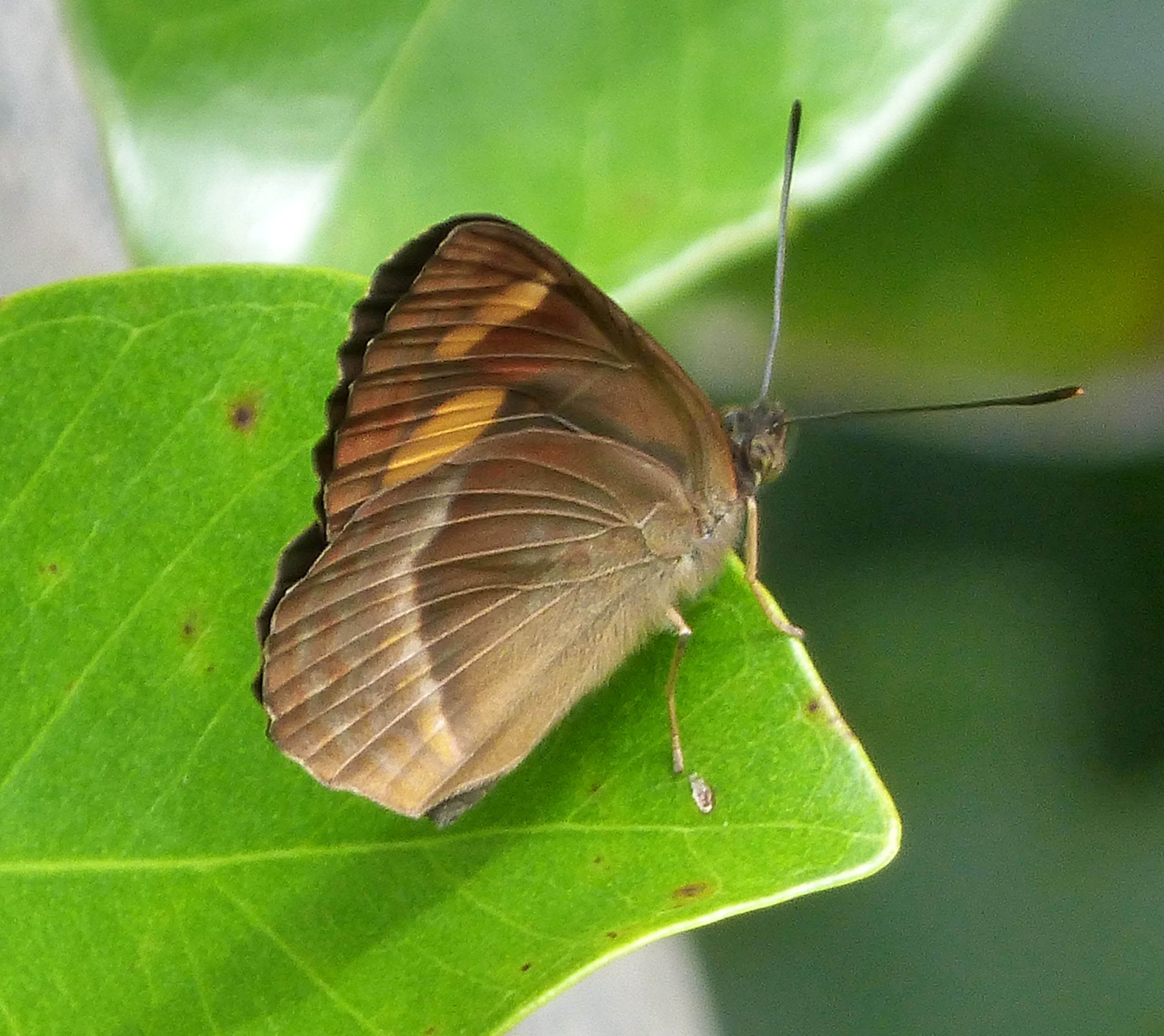 Neptis frobenia